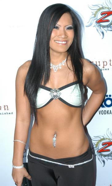 Christina Aguchi at Bryn Pryor's Corruption Party, November 11 2006